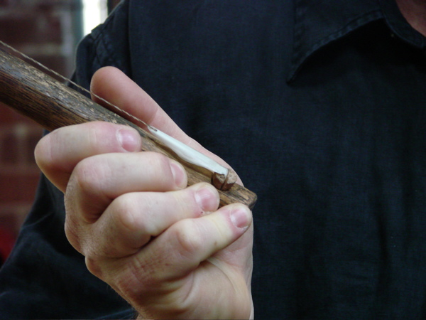 Close up of the quill portion of a lesiba, taken at the Drum Cafe in Johannesburg.